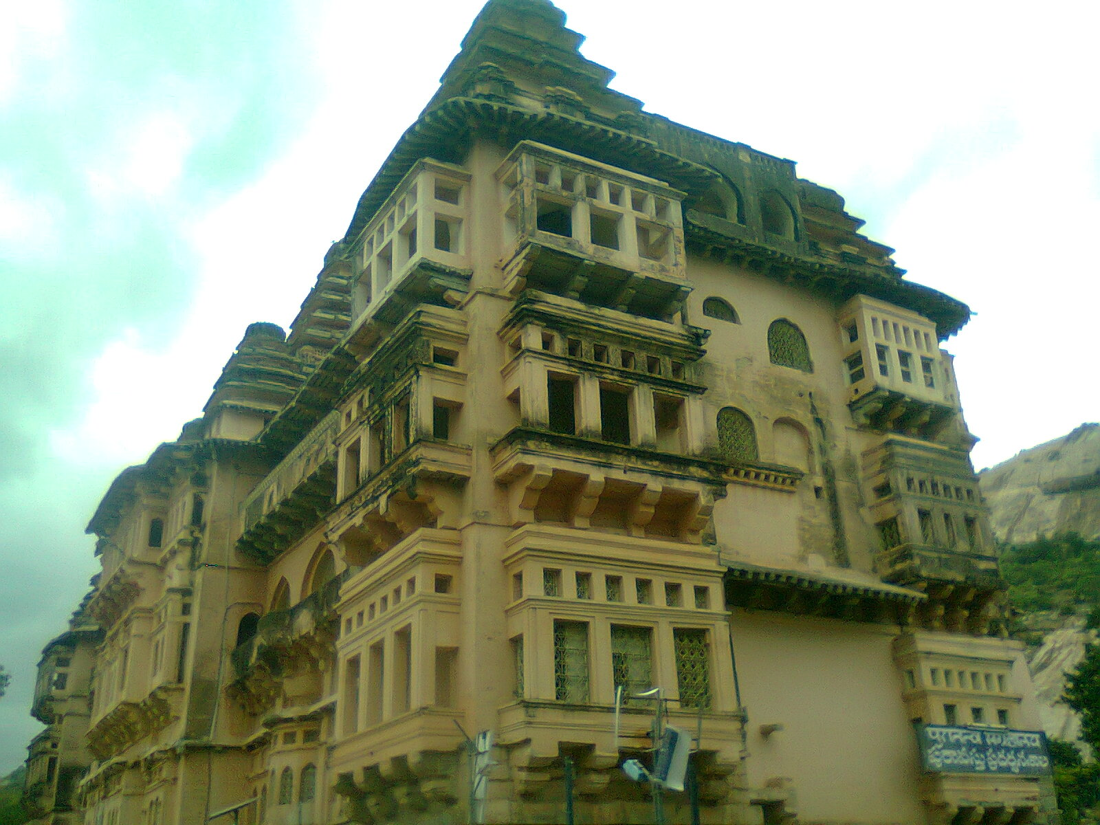 Upper Fort